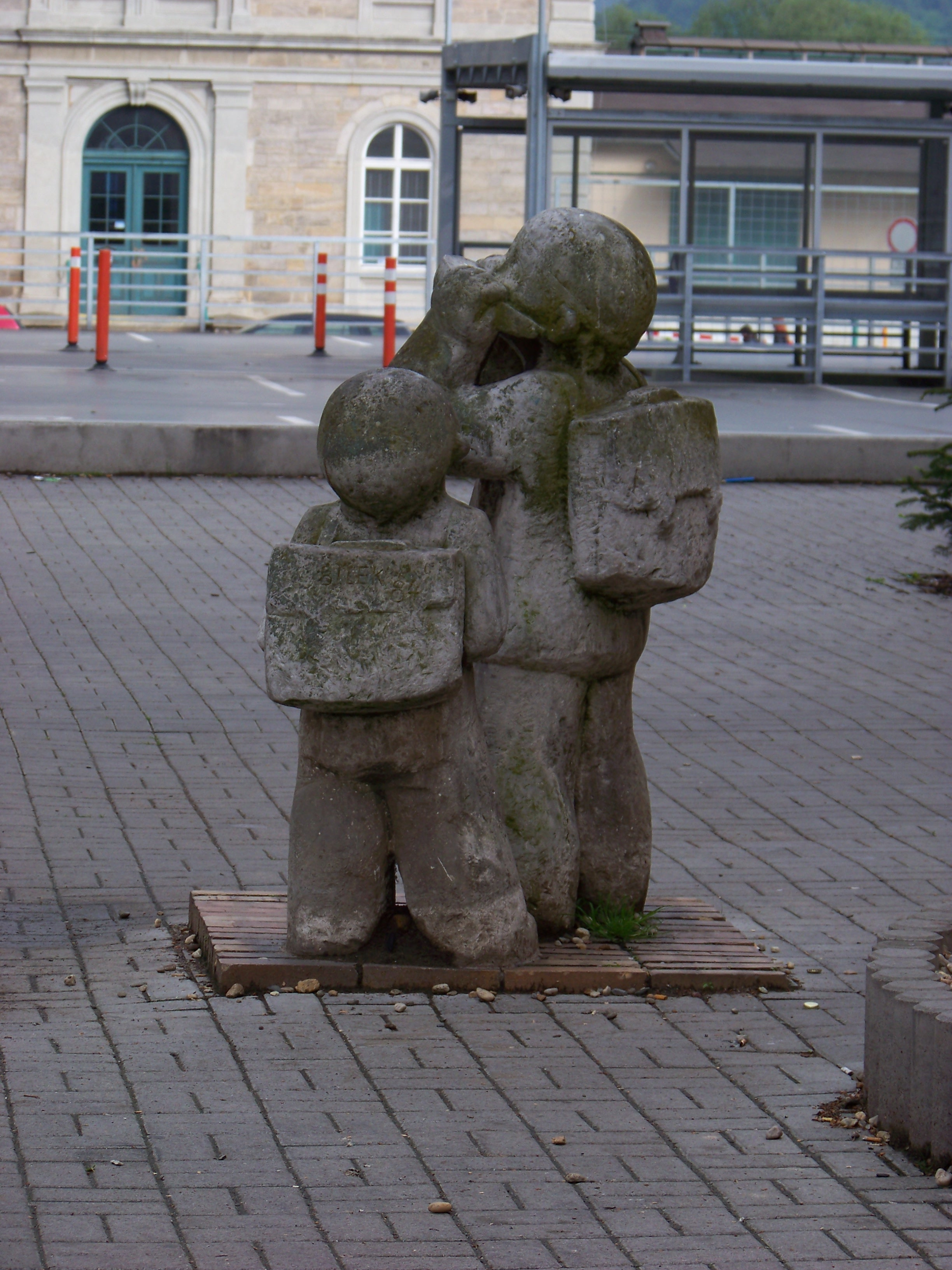 Děčín-Podmokly, Děčín District, Ústí nad Labem Region, Czech Republic. Status in front of Korál shopping centre, Plzeňská 1700/9.